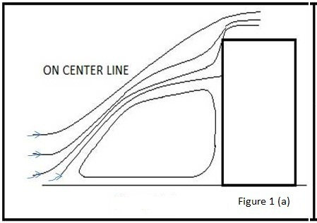 my own work